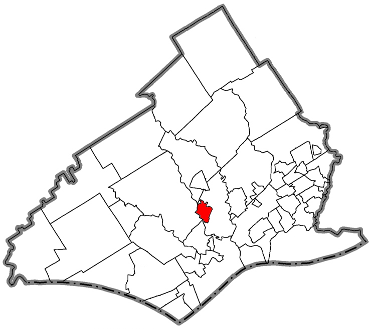 Showing the location within Delaware County, Pennsylvania.